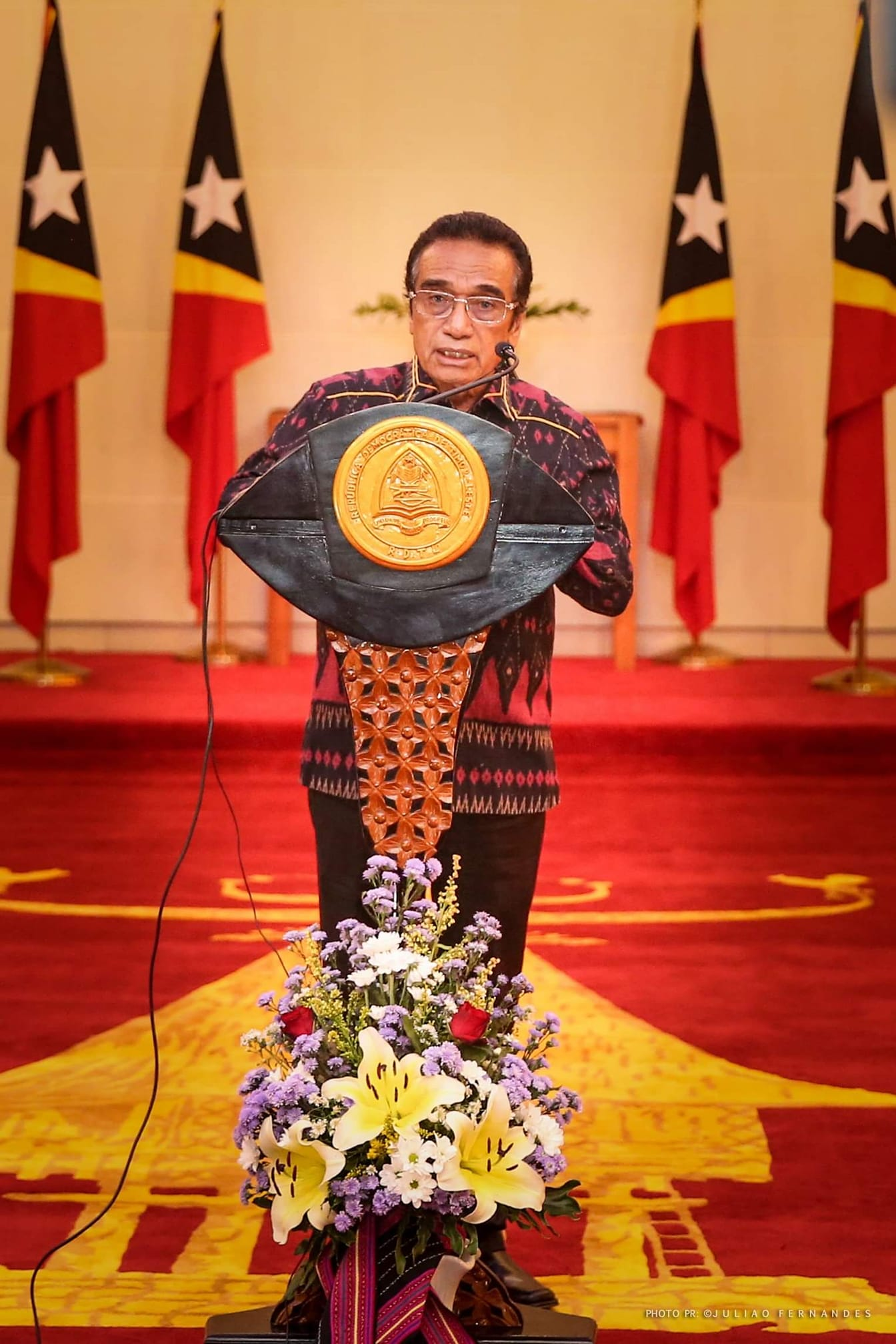 Statement of president Francisco Guterres, East Timor